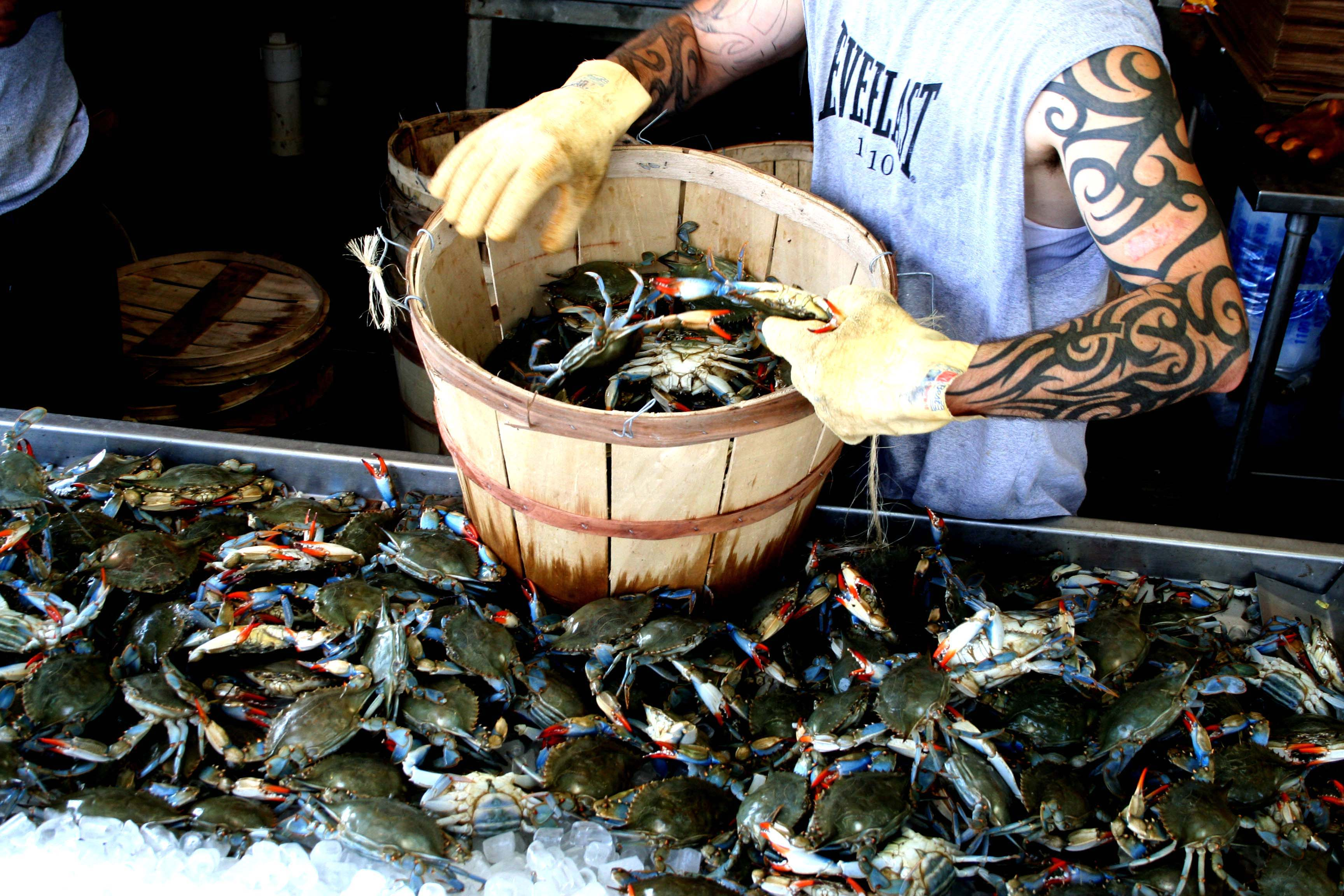 Crabs at the Wharf's seafood market - Jeff Costlow 2005